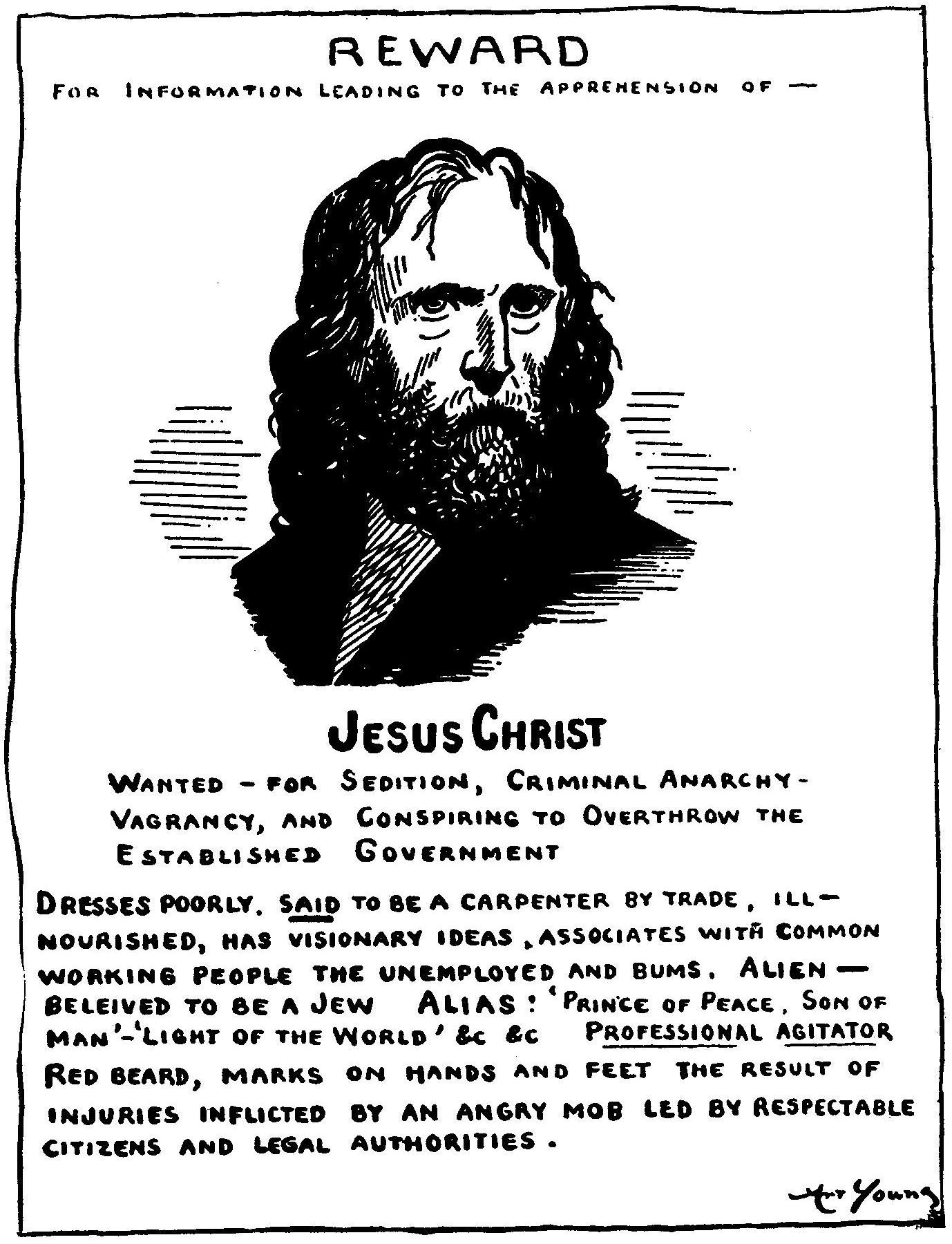 Political cartoon by Art Young depicting Jesus on a "wanted-poster". First published in The Masses in 1917.Reward. For information leading to the apprehension of —. Jesus Christ. Wanted - for sedition, criminal anarchy - vagrancy, and conspiring to overthrow the established government. Dressed poorly, said to be a carpenter by trade, ill-nourished, has visionary idea, associates with common working people the unemployed and bums. Alien - beleived to be a jew. Alias : 'Prince of peace', 'Son of man - Light of the world', &c &c. Professional agitator read beard, marks on hands and feet the result of injuries inflicted by an angry mob led by respectable citizens and legal authorities.